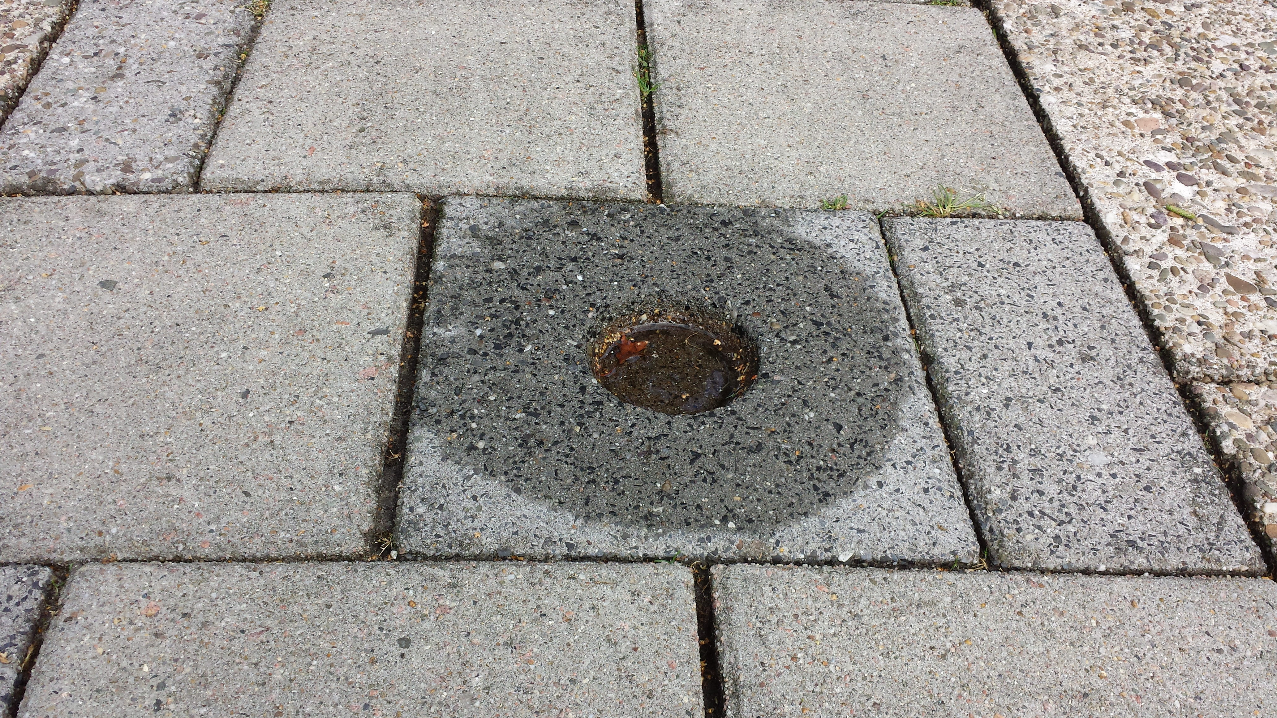 Special Street Tile